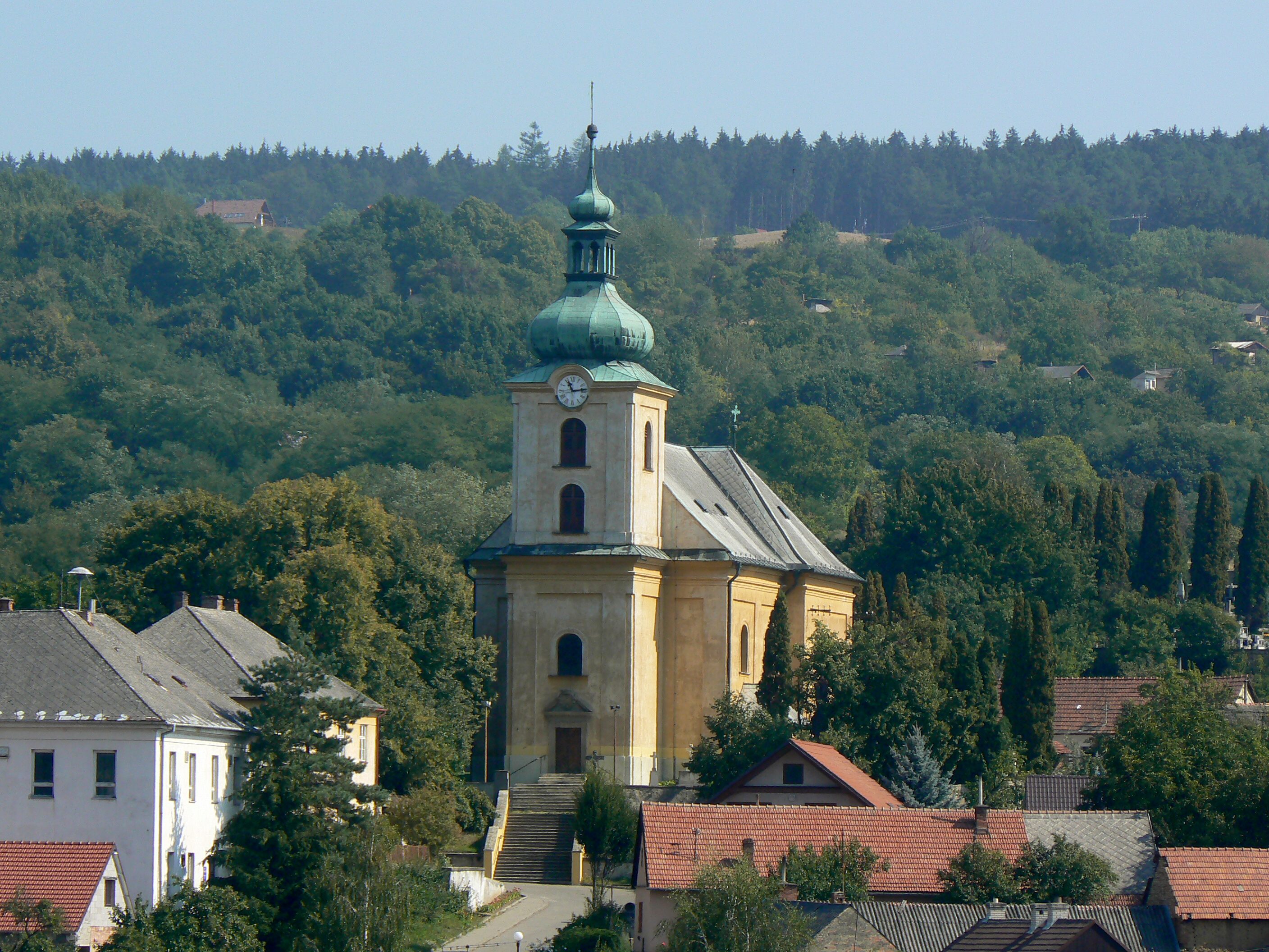 St. Gall's church in Osvětimany, Uherské Hradiště District, Czech Republic.